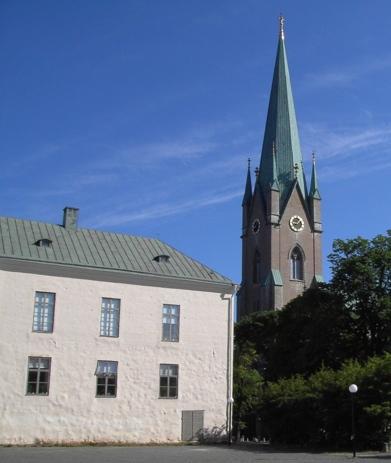 Castle of Linköping and the Linköping cathedral, Linköping, Östergötland, Sweden